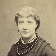 Eleanora Nelly Moore actress by Samuel Alexander Walker in 1860s crop